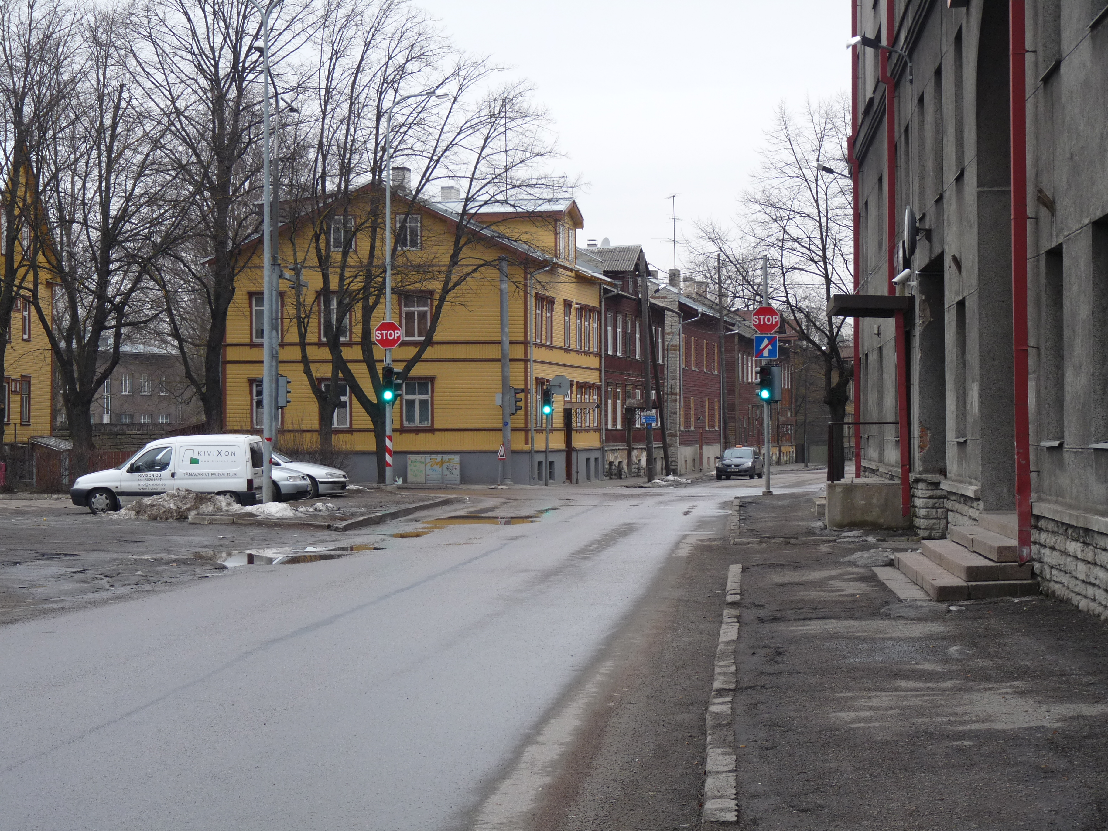 Herne and Veerenni streets intersection in Tallinn